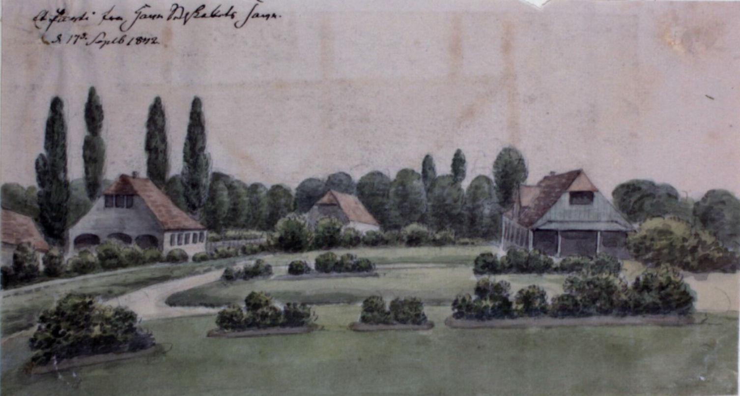 Et Partie fra Have Selskabets Have d. 17. Septb. 1842